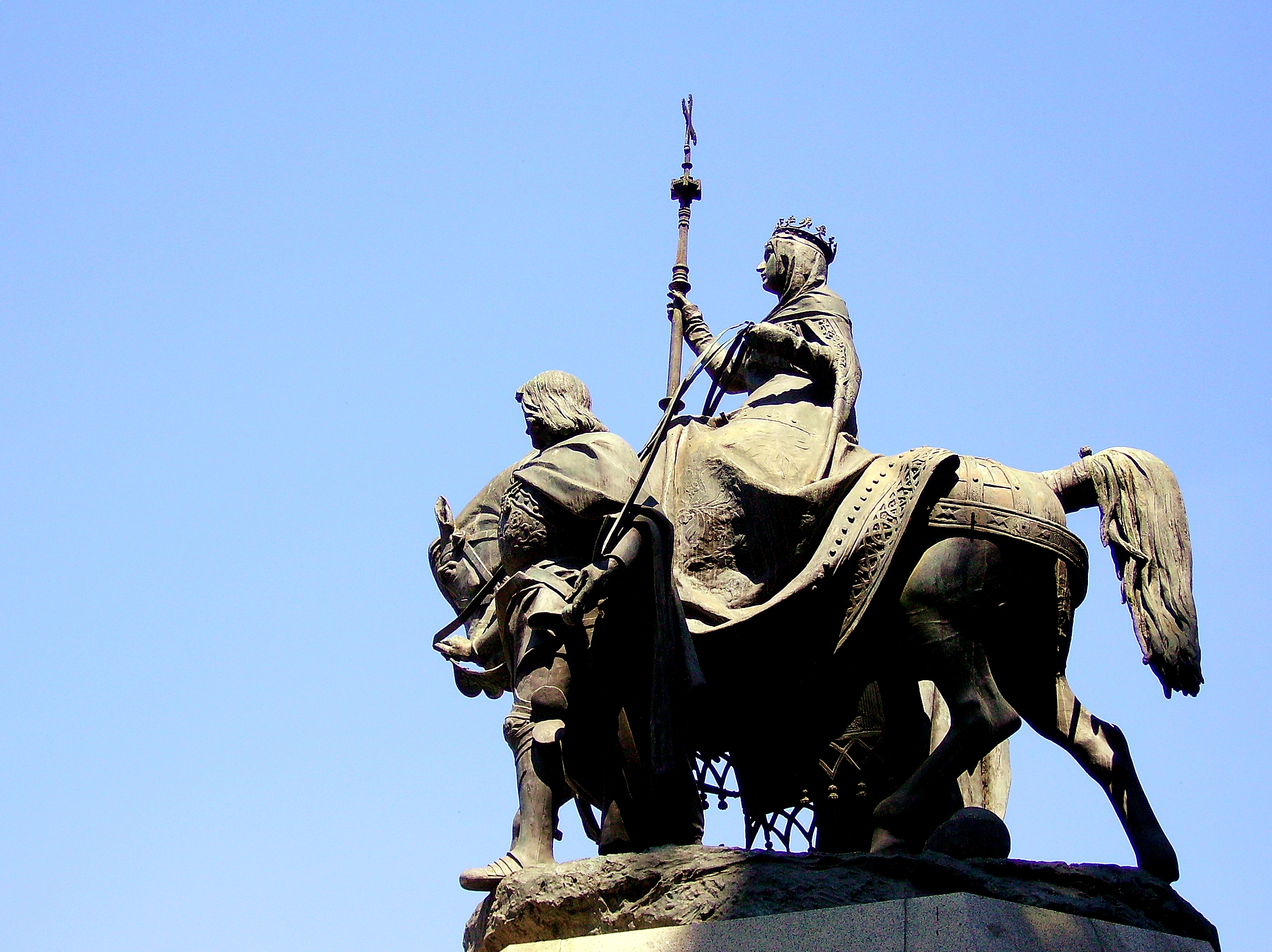 Detail of the monument to Isabella of Castile (1451–1504). Built in Madrid (Spain) in 1883. Made of bronze and stone by Manuel Oms y Canet. It represents the Queen (equestrian statue) with Cardinal Mendoza and Gonzalo de Córdoba.